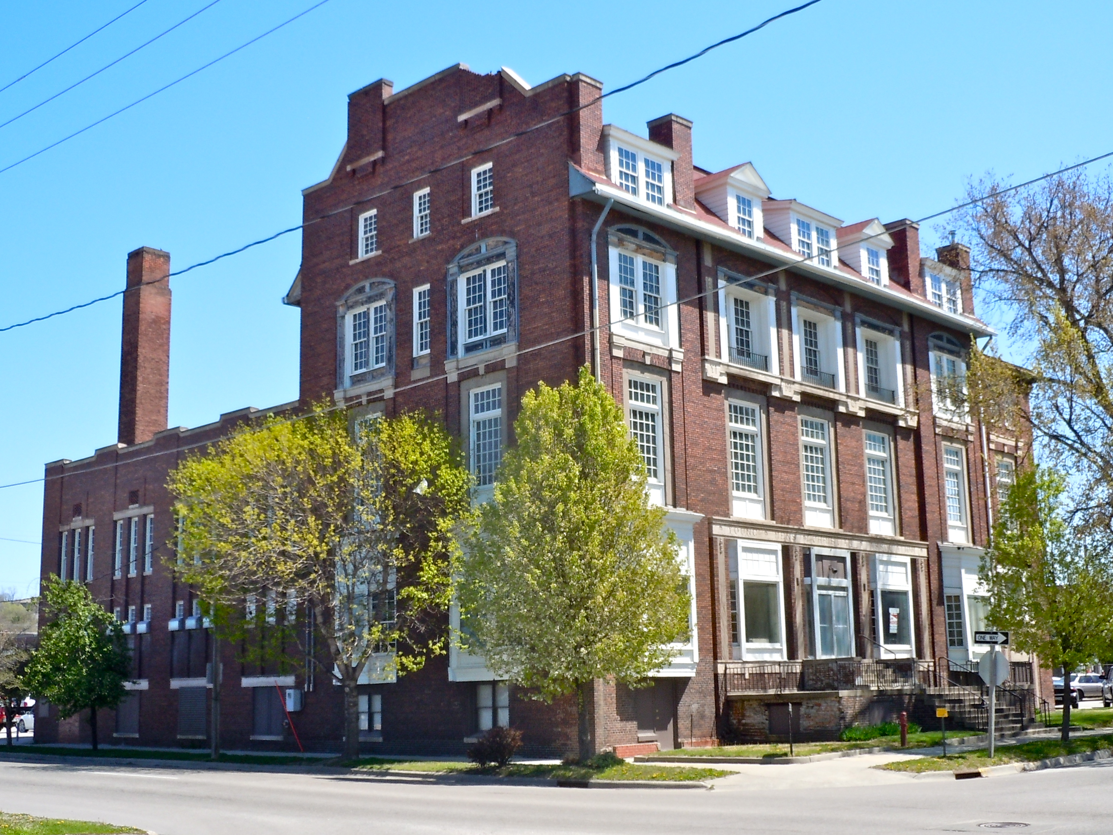 Y.M.C.A. Building on the NRHP since June 27, 1979. At 628 1st Ave. Council Bluffs, Iowa